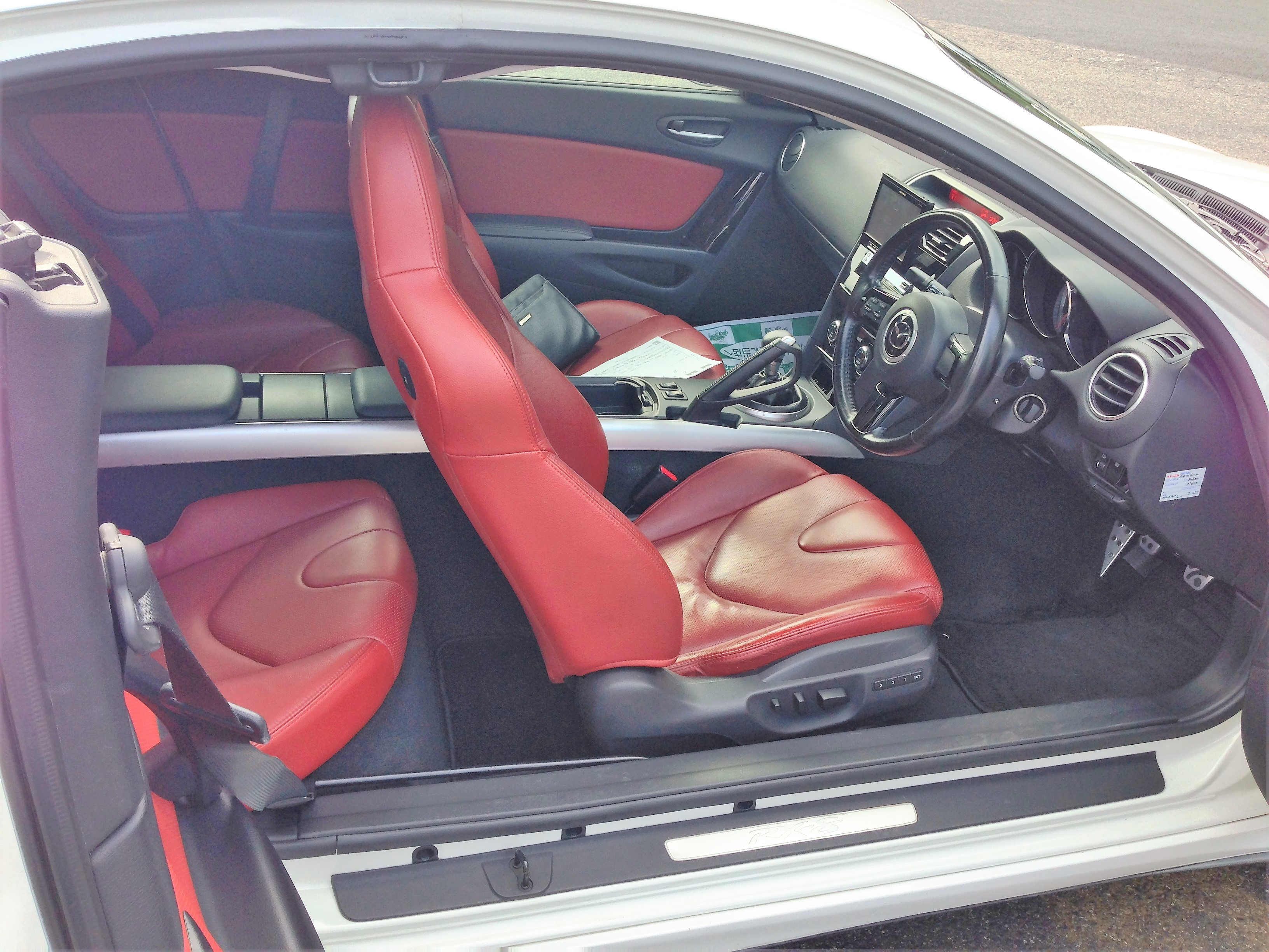 MAZDA RX-8 DOOR OPEN